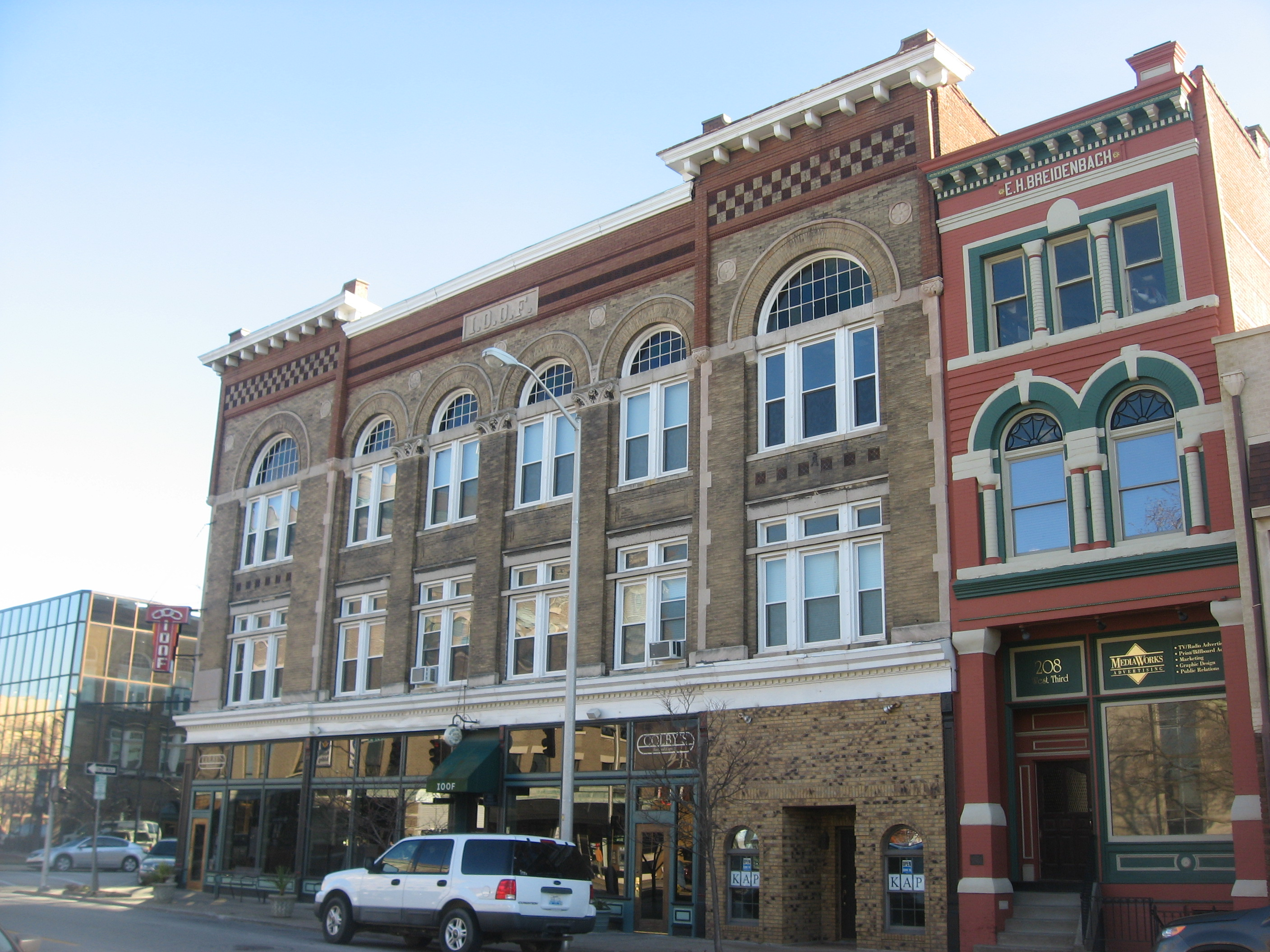 Front of the Odd Fellows Building, located at 200-204 W. Third Street in Owensboro, Kentucky, United States. Built in 1890, it is listed on the National Register of Historic Places, and it is part of a Register-listed historic district, the Owensboro Historic Downtown Commercial District.